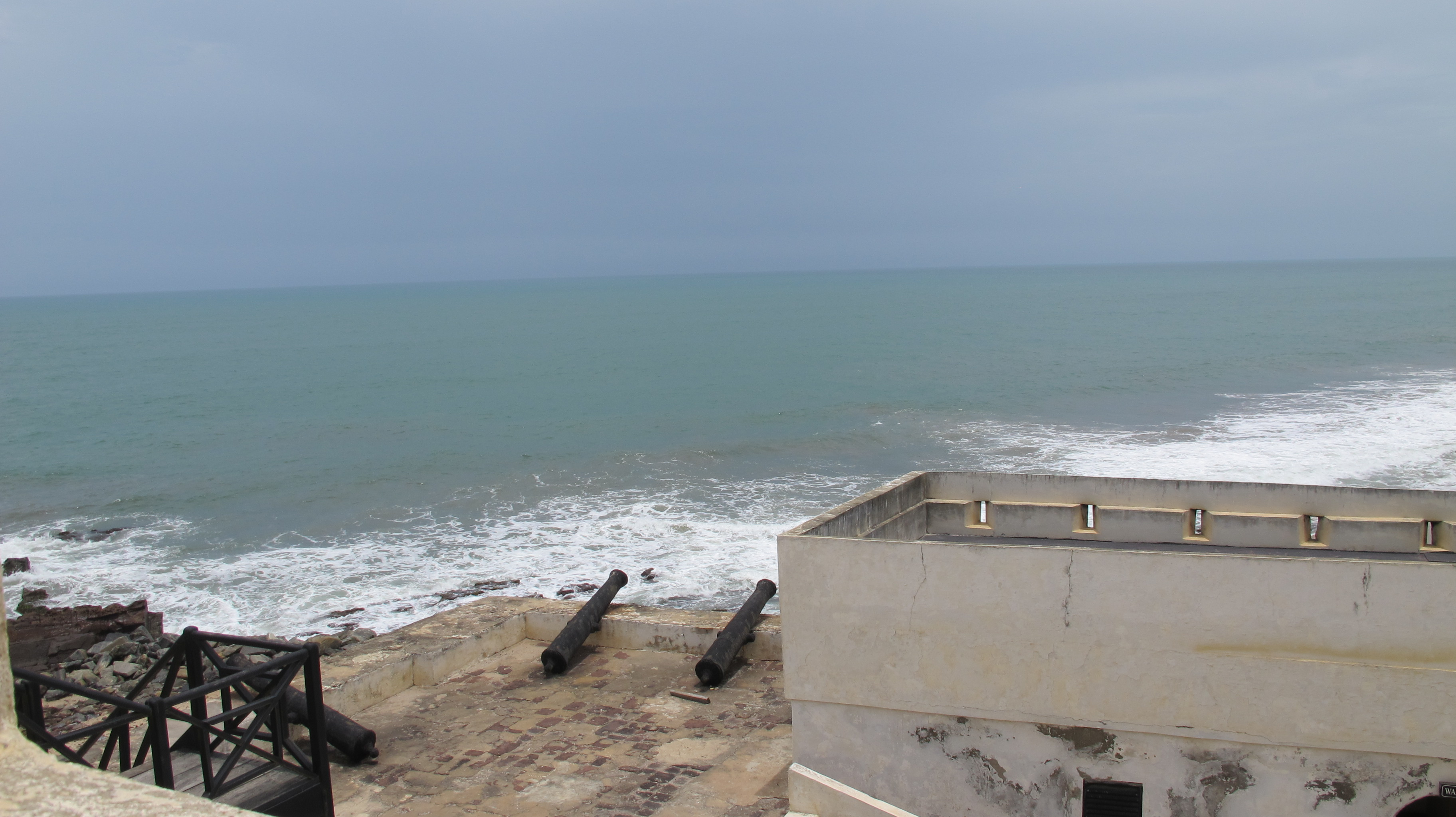 Ghana, Elmina Castle, castle gun defences